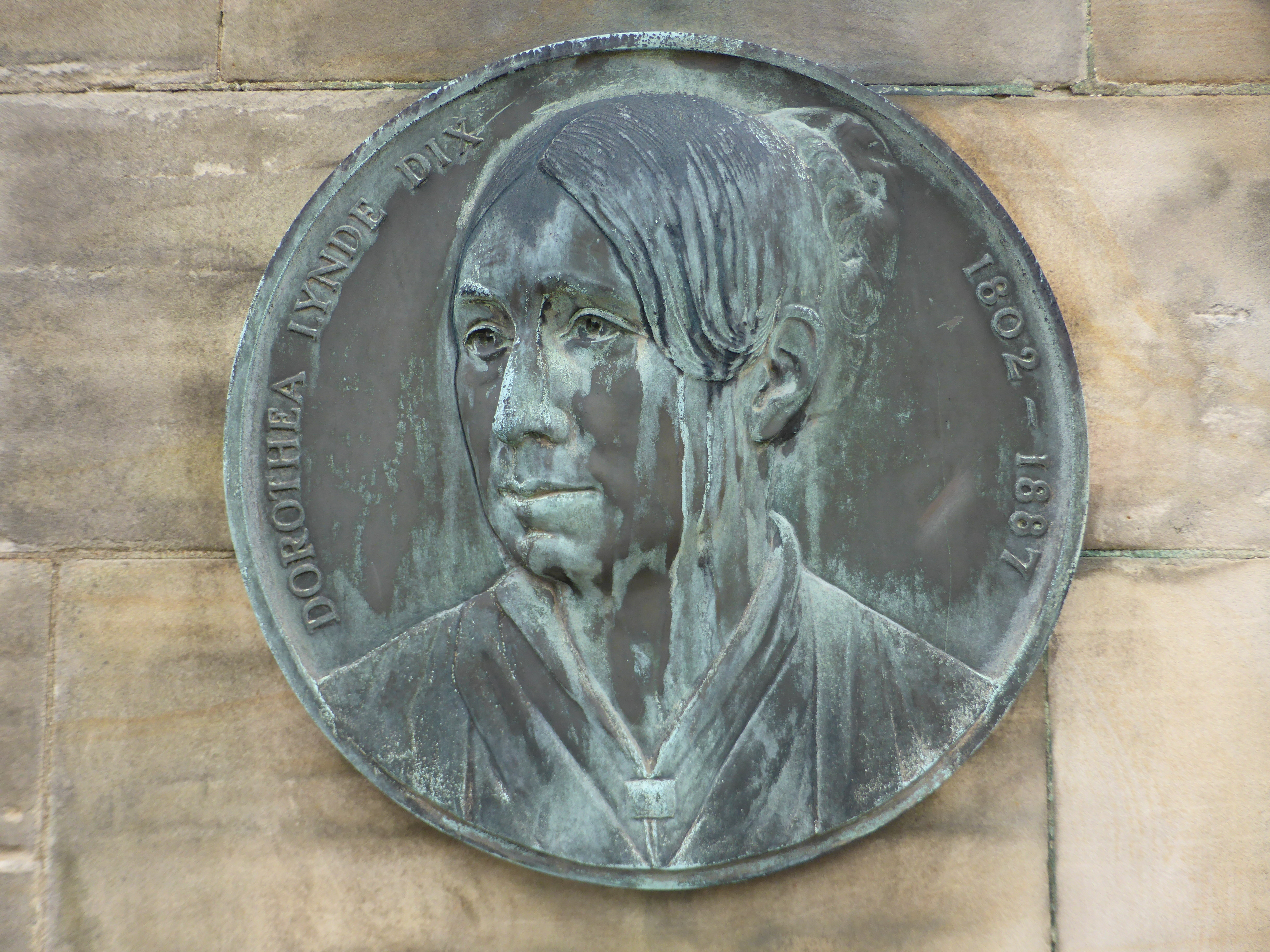 Plaque to Dorothea Lynde Dix at the Royal Edinburgh Hospital, one of the plaques of notable figures in the development of mental health care, part of the memorial to Philippe Pinel.